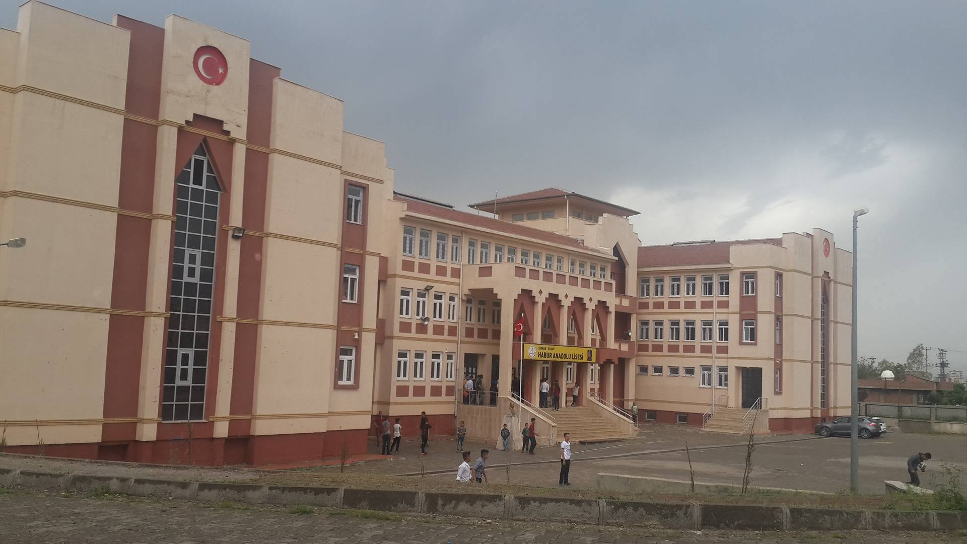 Habur Anadolu Lisesi